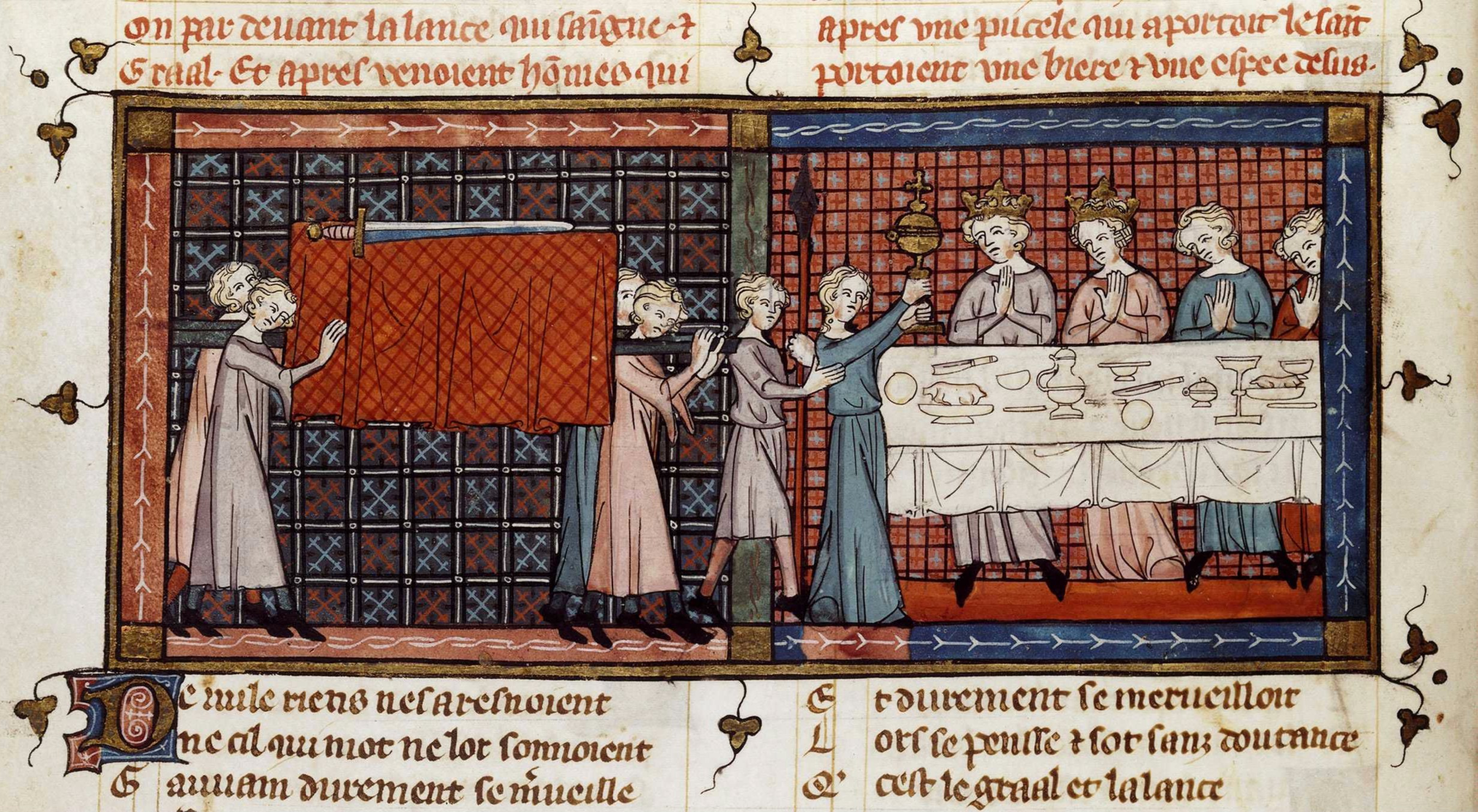 Perceval witnesses the mysterious Grail procession at the table of the Fisher King. Behind the Grail Maiden follows a young man carrying a lance dripping blood, followed by a coffin with a sword. From a 1330 manuscript of Perceval ou Le Conte du Graal by Chrétien de Troyes, BnF Français 12577, fol. 74v.